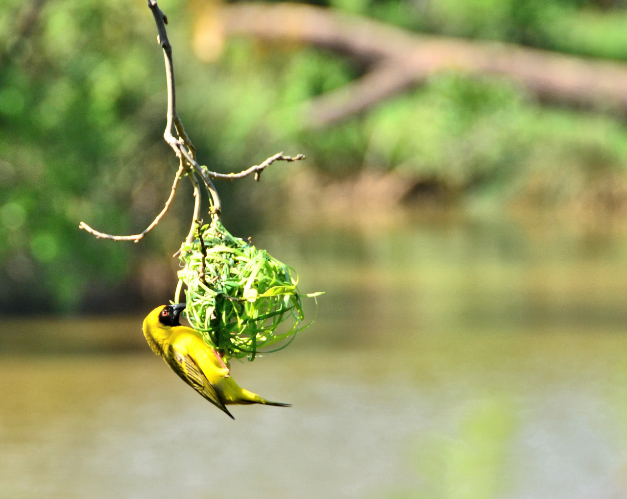 Southern Masked Weaver (Ploceus velatus) at Struben Dam Bird SanctuaryAfrikaans: Swartkeelgeelvink (Ploceus velatus) by Strubendam-voëlreservaat